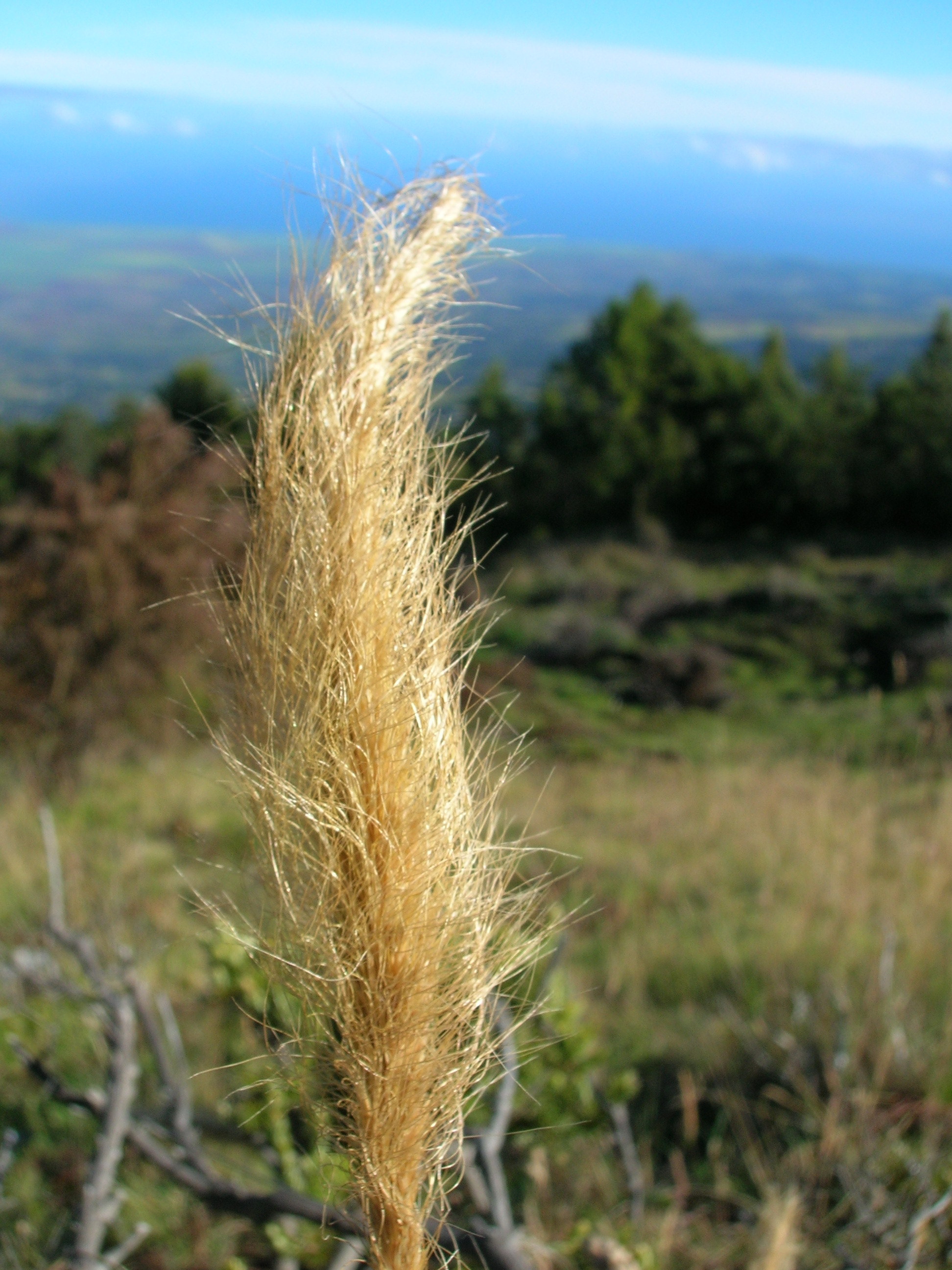 Dichelachne crinita (seedhead). Location: Maui, Polipoli